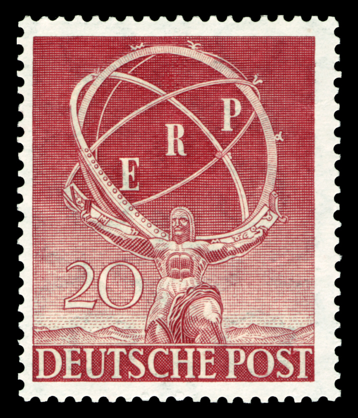 Deutsche Industrie-Ausstellung in Berlin